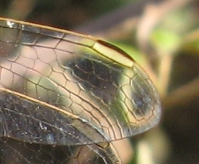 Pterosigma of a male Red-veined darter dragonfly (Sympetrum fonscolombii)